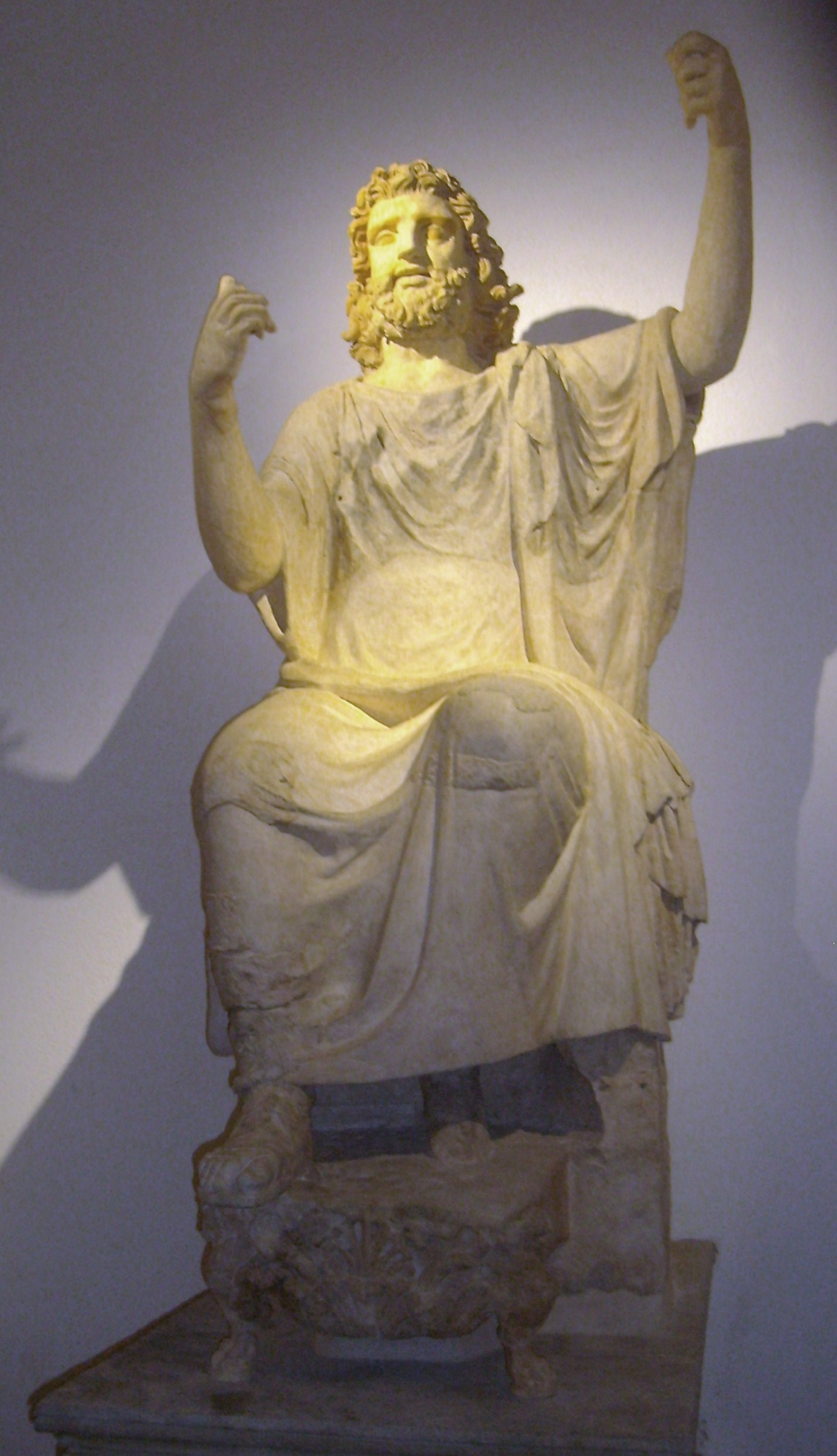 Statue of Baal or Zeus, found at Solunto; now in the Museo archeologico regionale (Palermo)